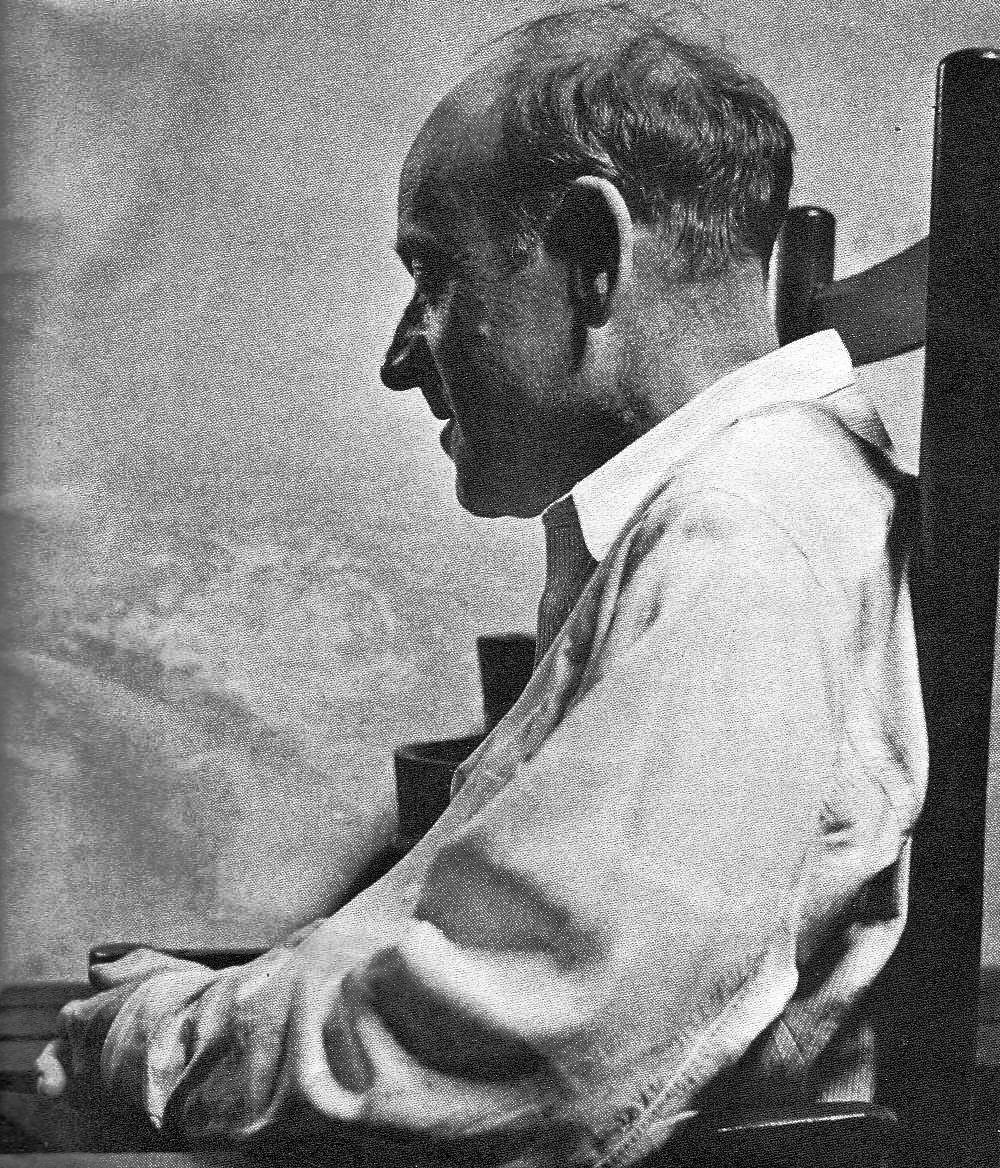 snapshot